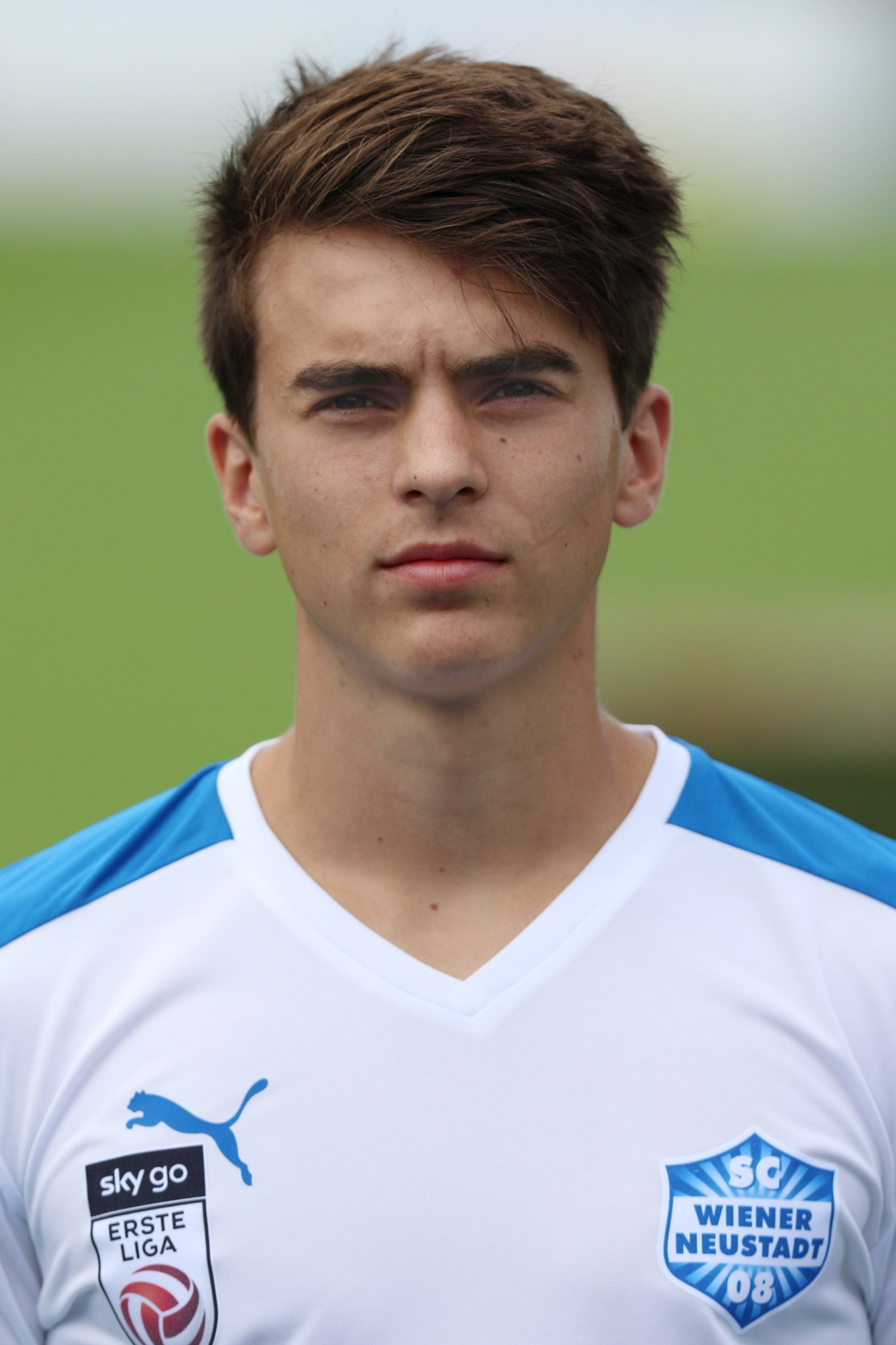 SC Wiener Neustadt squad presentation summer 2017. – The photo shows Pascal Fischer.